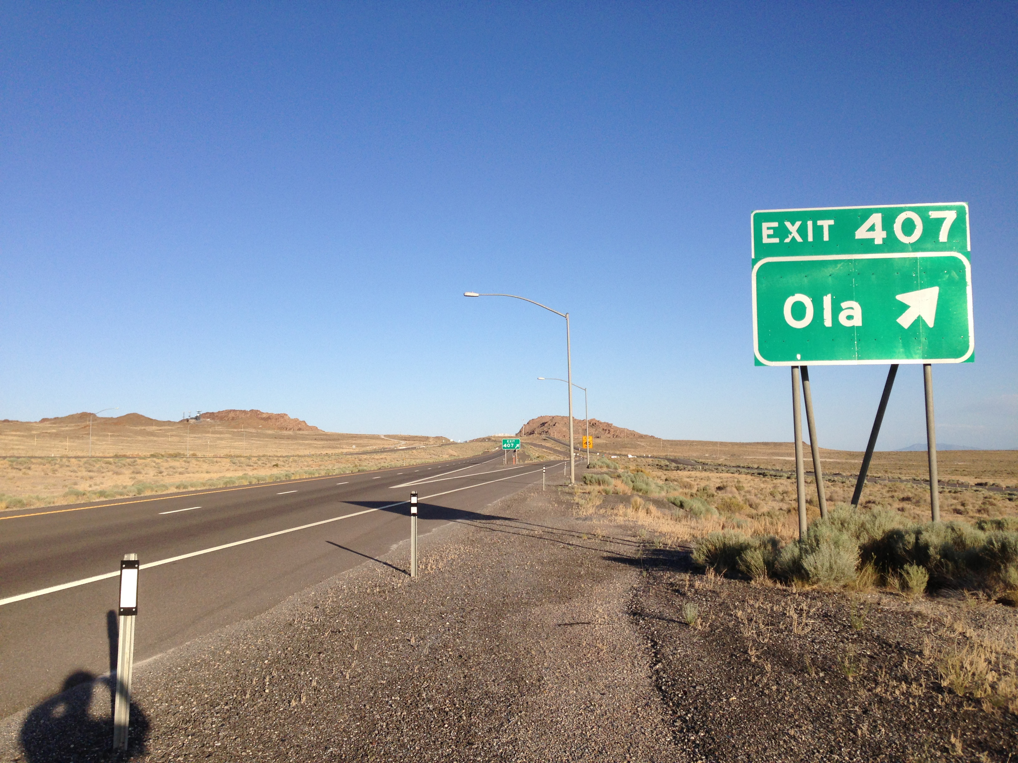 Sign for Exit 407 along eastbound Interstate 80 and southbound Alternate U.S. Route 93 near Ola, Nevada